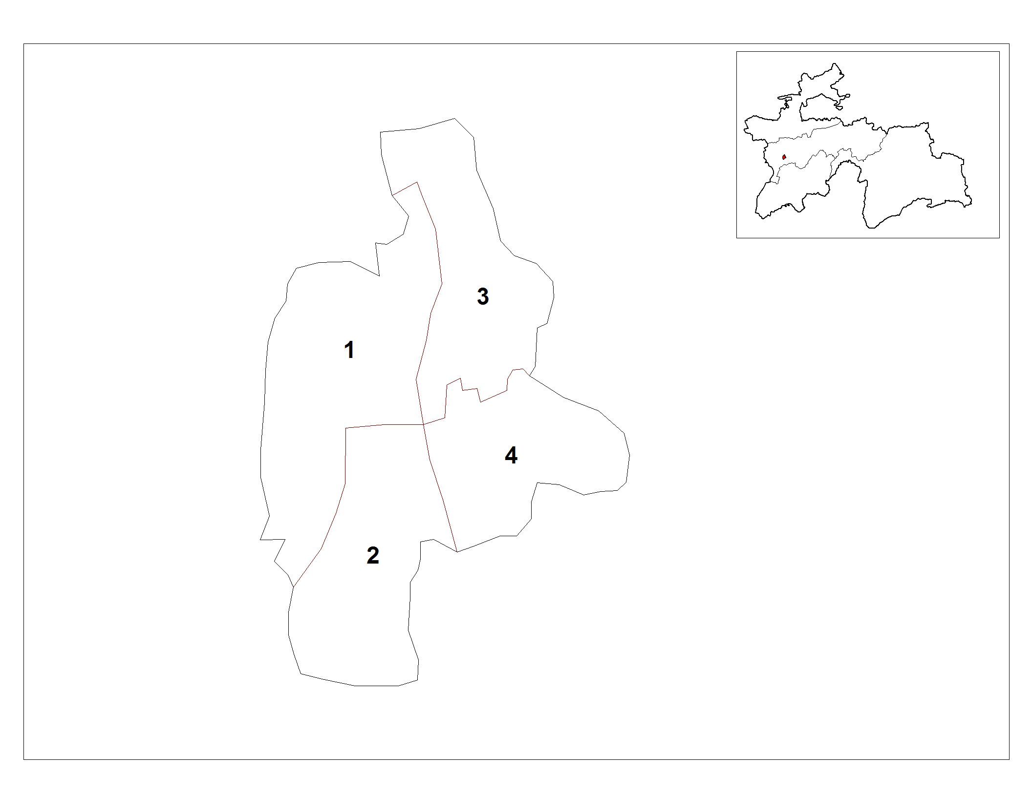 Map of the districts of Dushanbe, Tajikistan.